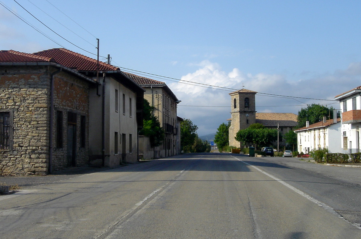 Miñao (Vitoria-Gasteiz, Basque Country, Spain)